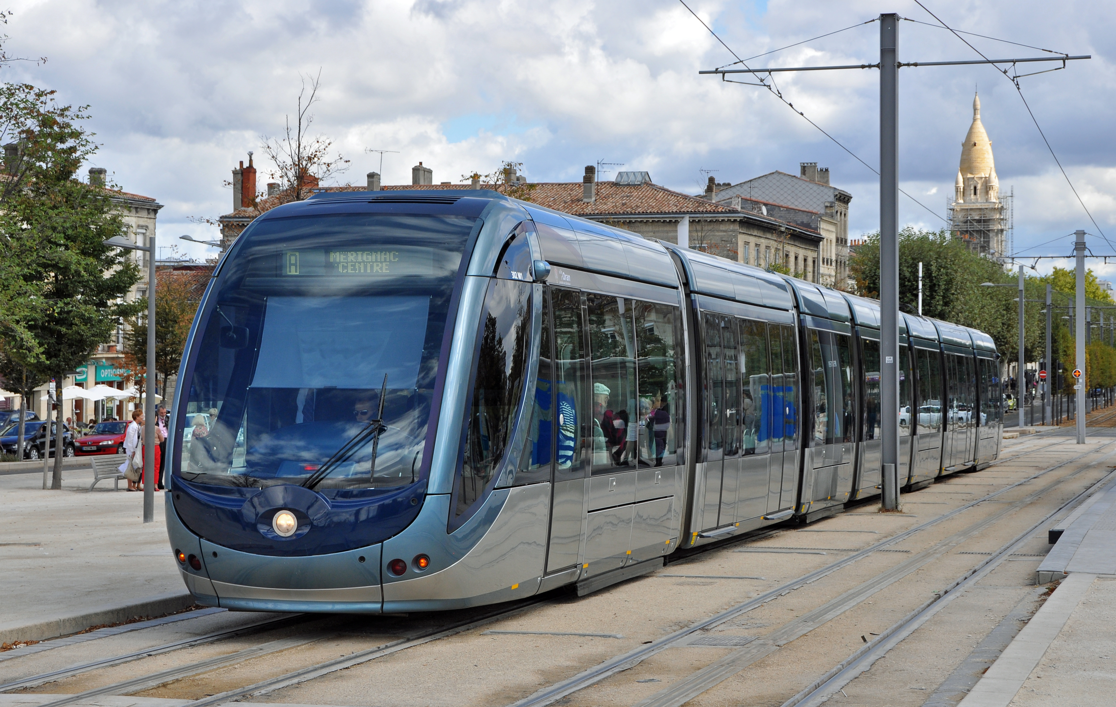 Bordeaux (France): Citadis 402 tram (built by Alstom) on line A at the Place de Stalingrad